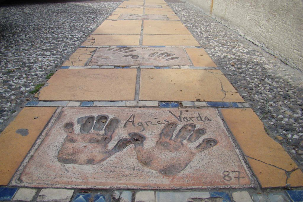 Agnès Varda handprints in Cannes (France)